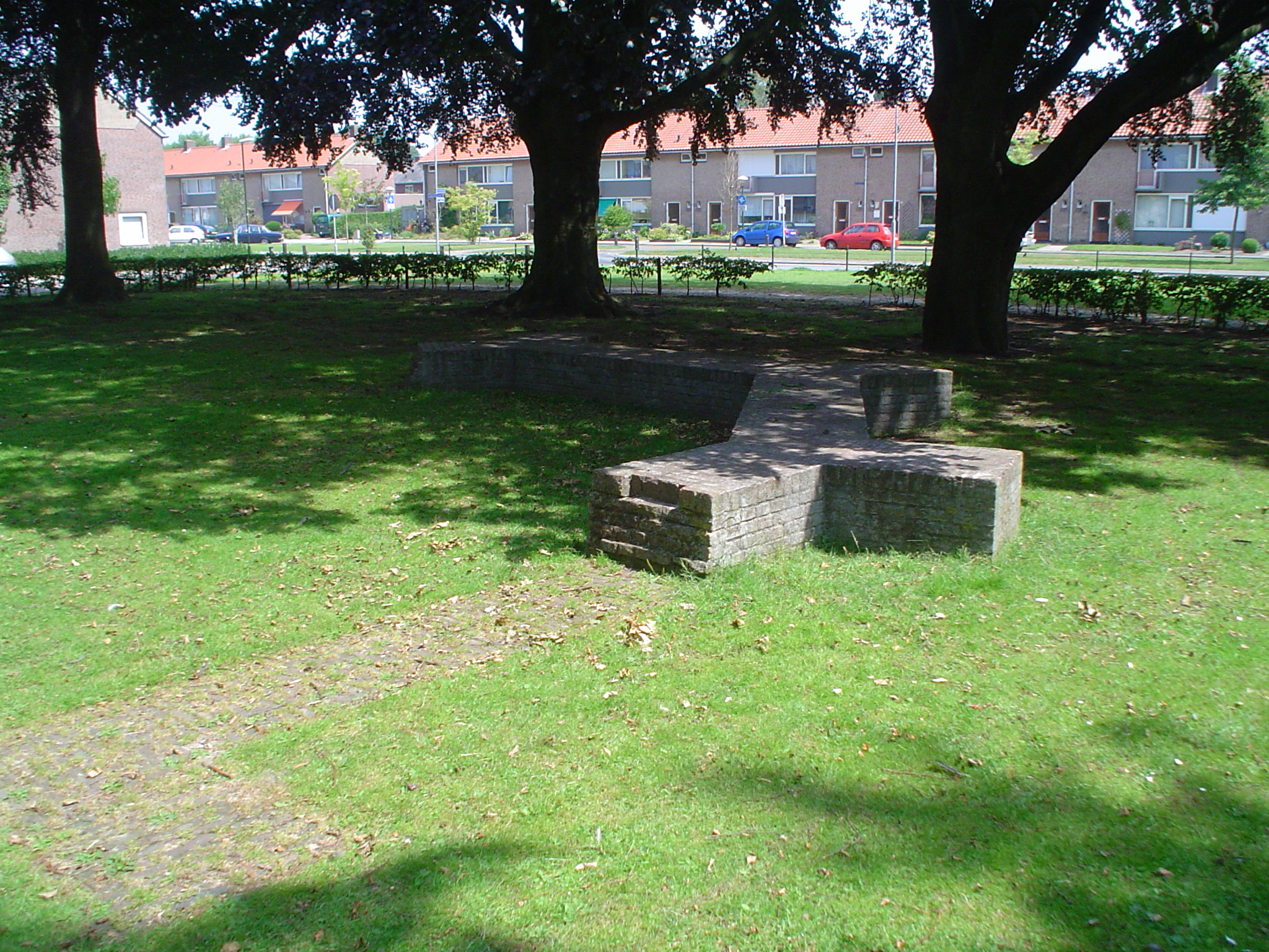 Former church and cemetary at the Oude Kerkhof in Veldhoven.